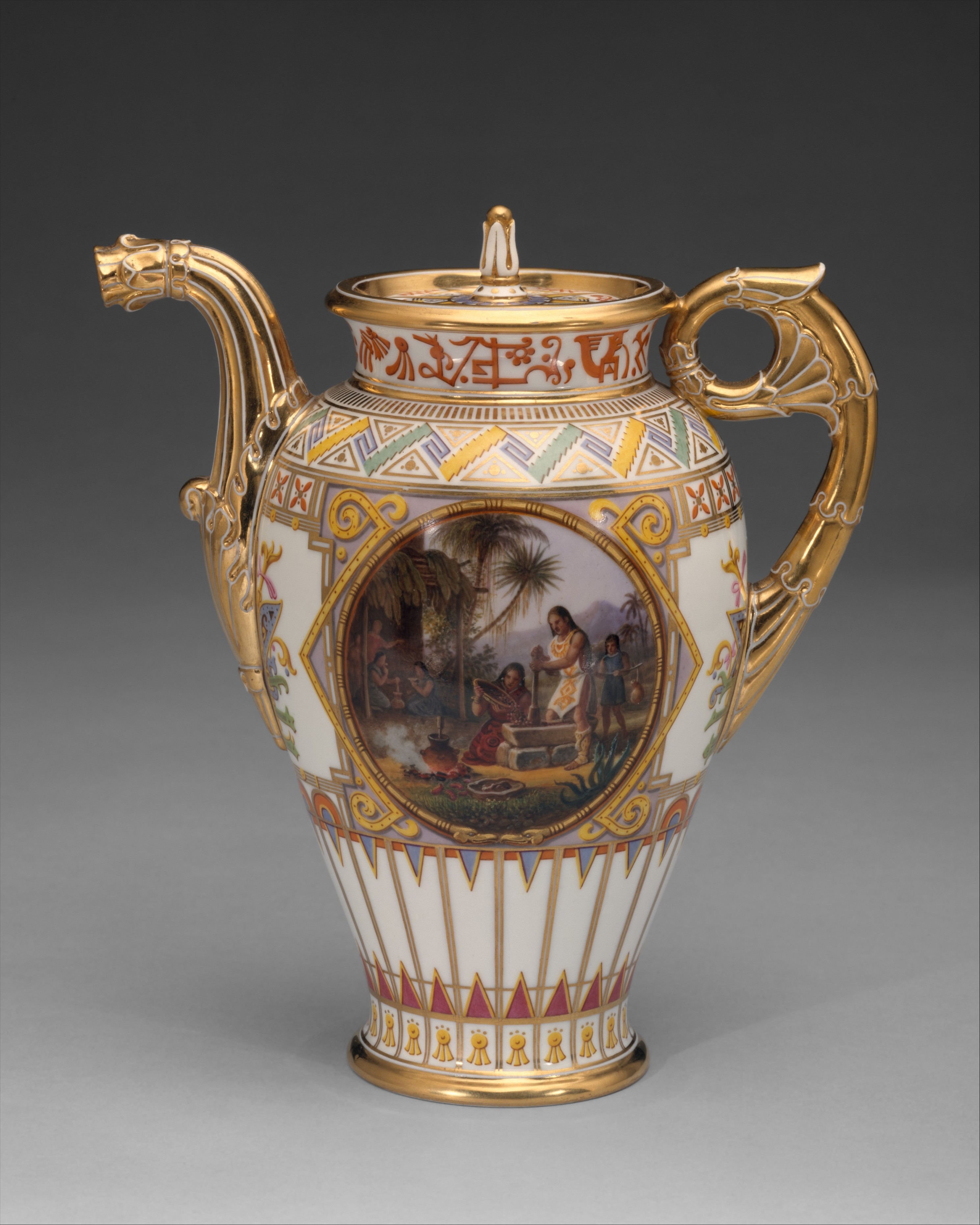 French, Sèvres; Coffeepot; Ceramics-Porcelain